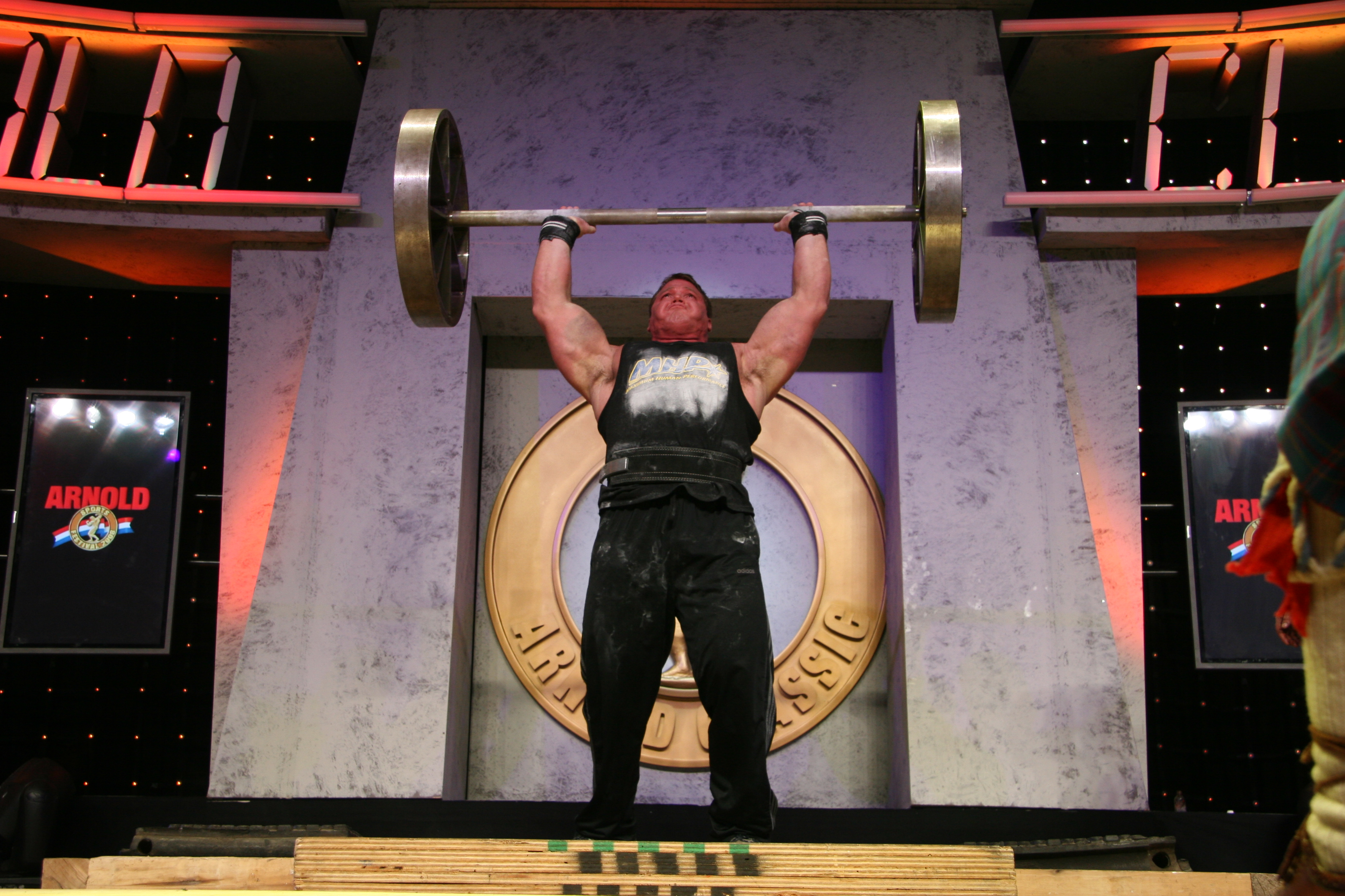 Derek Poundstone at 166 kg (366 lbs) Axle Lift (Apollon's Wheels) during Arnold Strongman Classic 2008. Columbus, Ohio.